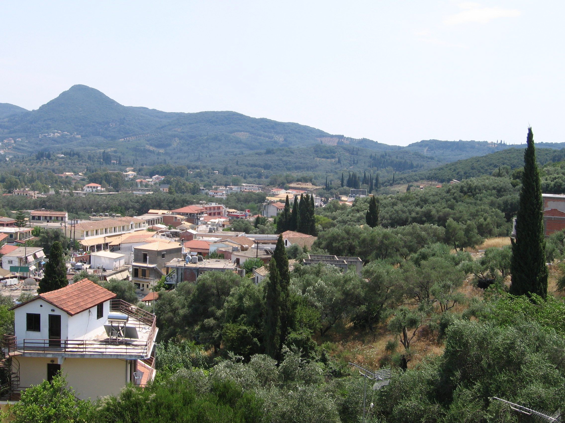 A view over the village and holiday resort of Moraitika in Corfu, Greece